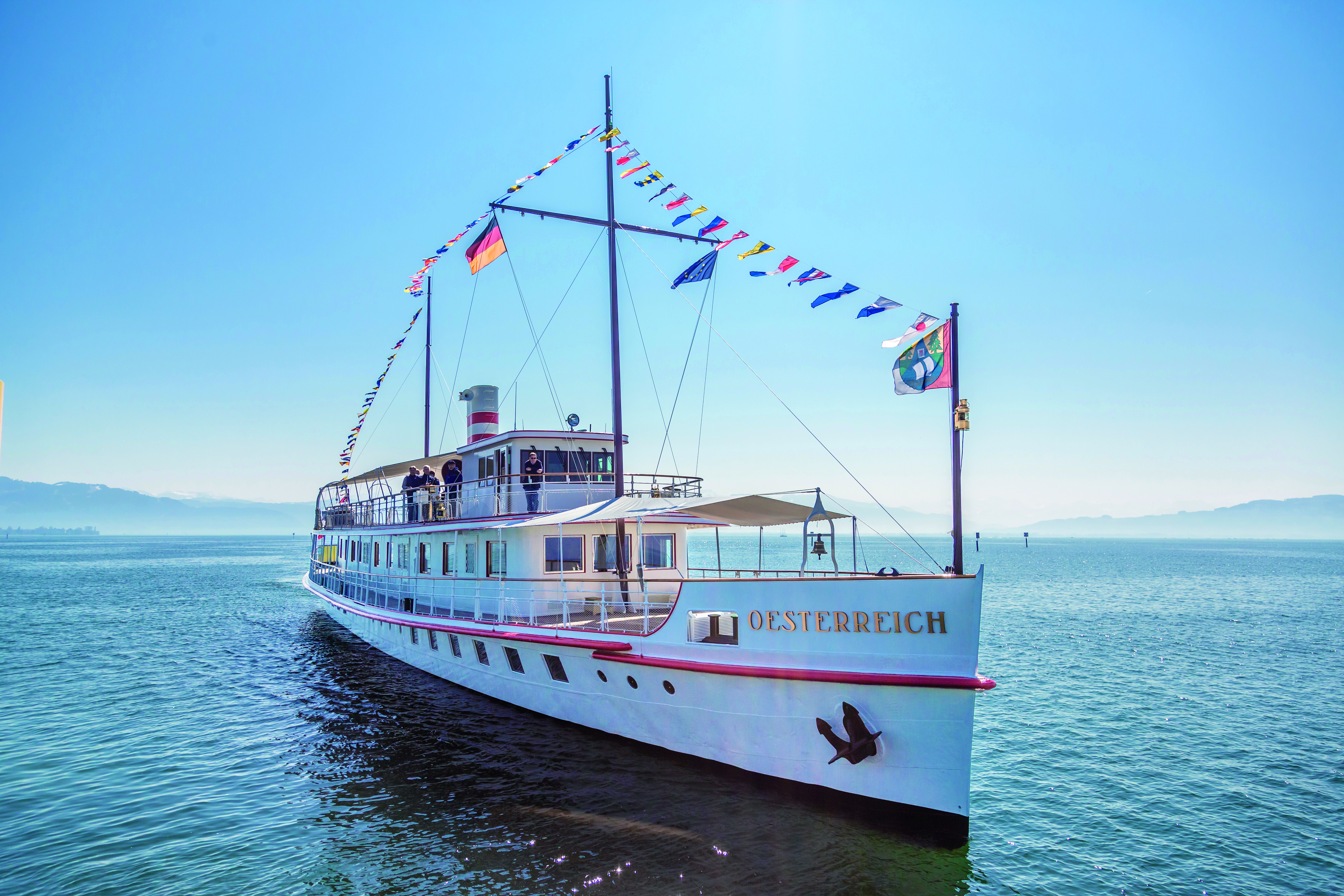 Motorschiff Österreich (meaning: "Motorship Austria"), commissioned in 1928 at Lake Constance, various conversions, extensively renovated and redeveloped from 2015 to 2019, consecrated by Bishop Benno Elbs and renewed maiden voyage on 18 April 2019.